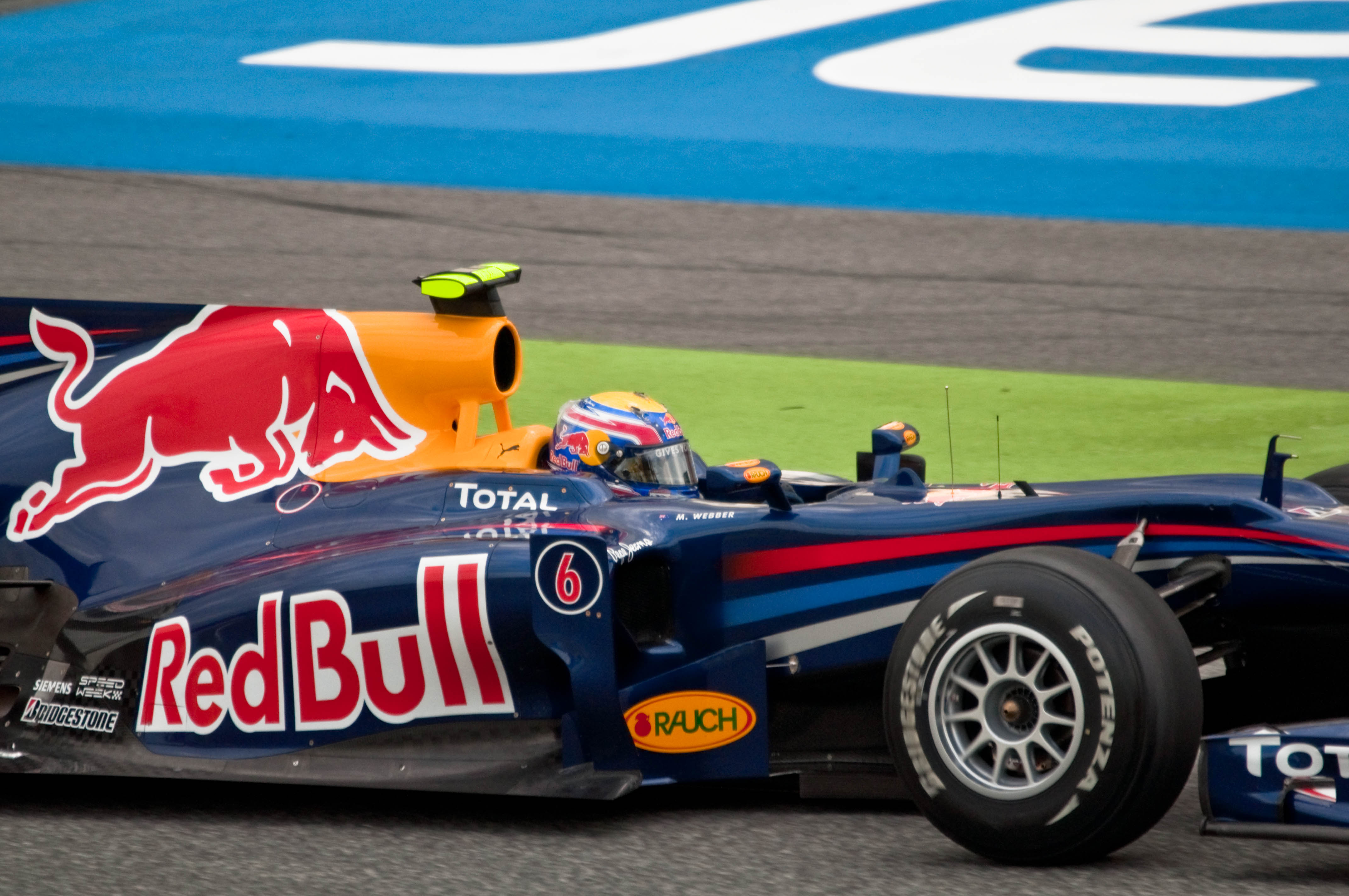 Mark Webber driving for Red Bull Racing at the 2010 Spanish Grand Prix.